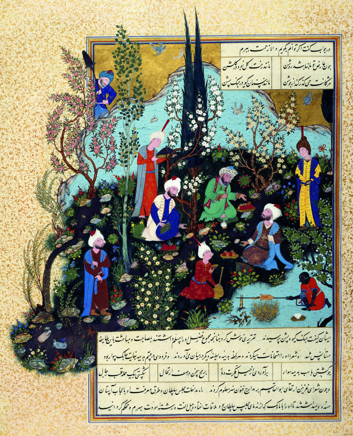 Folio from the Shahnama of Shah Tahmasp.